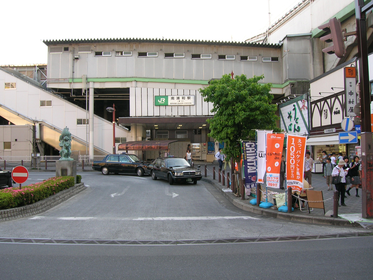 East Exit of Minami-Urawa Station